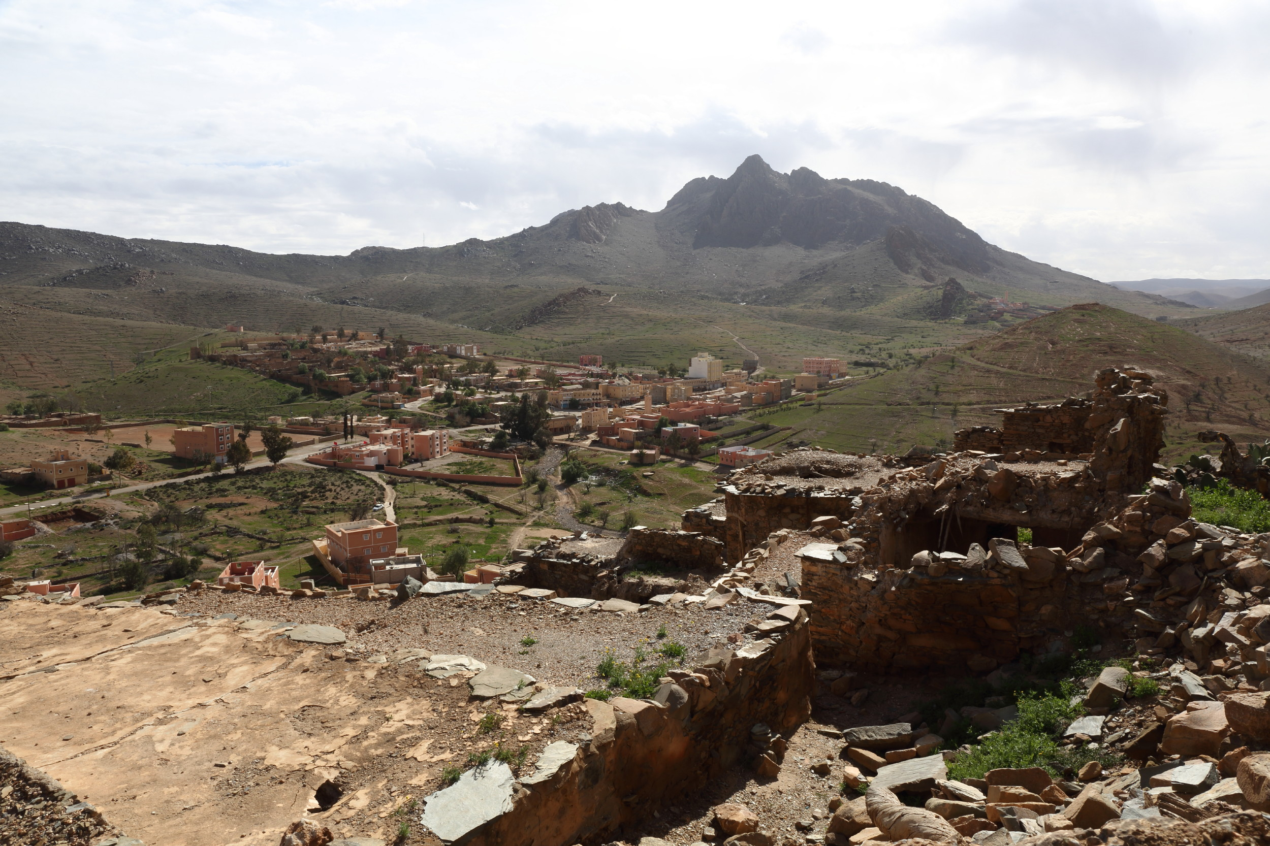 Aït Abdallah in Anti-Atlas mountains, province of Taroudannt, Morocco